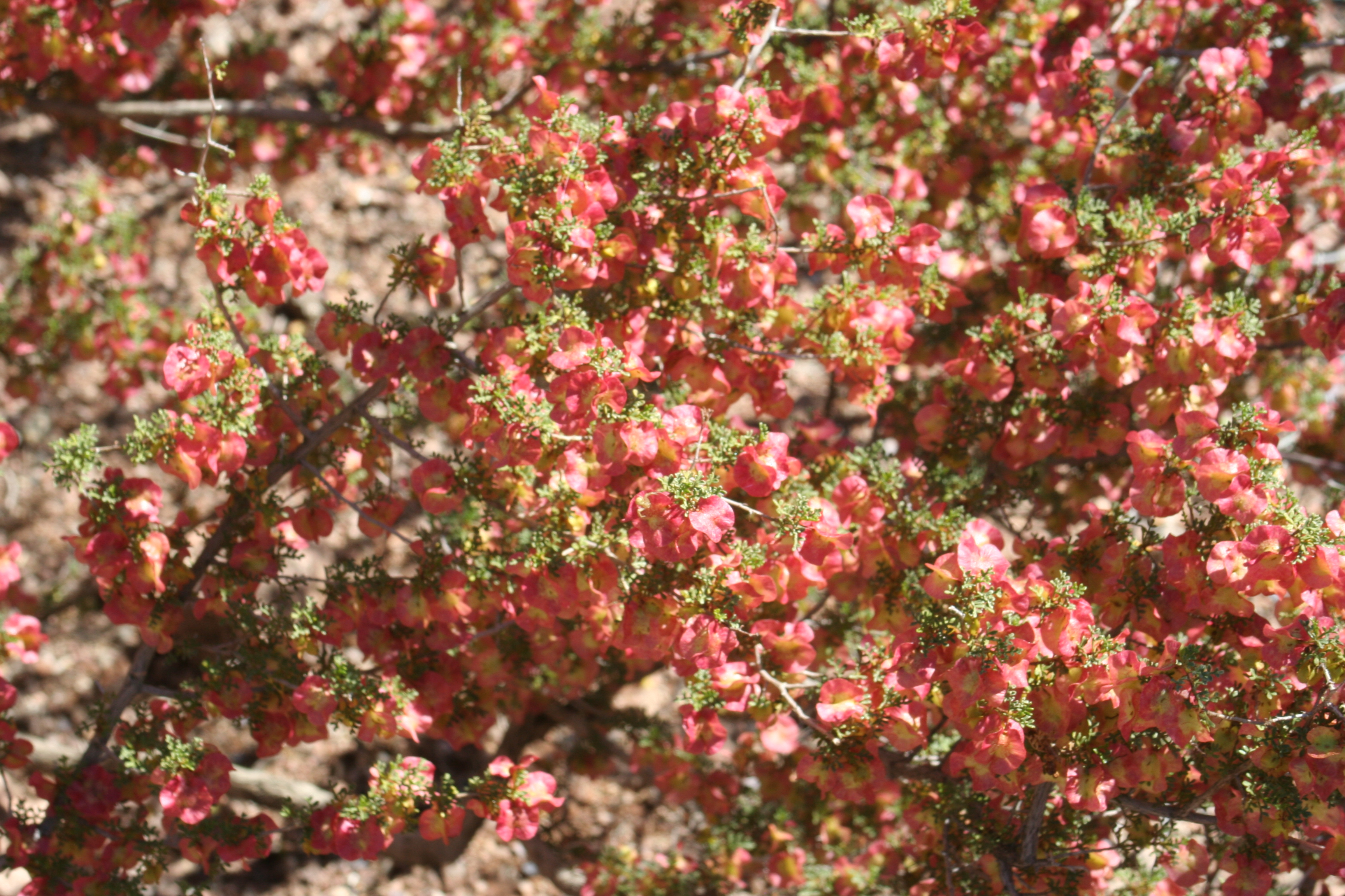 Red Wing Hopbush (Dodonaea microzyga), of the Soapberry family (Sapindaceae). Photographed at the Desert Botanical Garden, Phoenix, AZ.